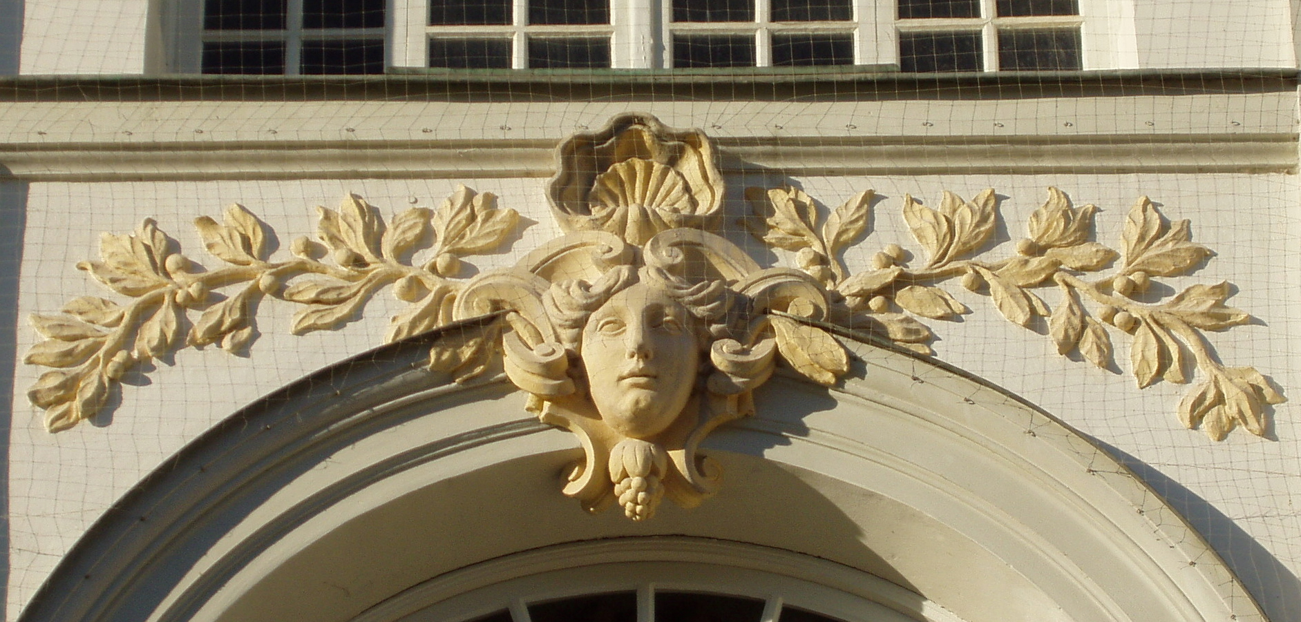 Foto